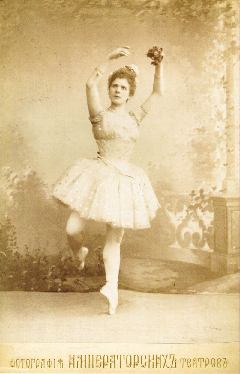 Photograph of Pierina Legnani (1863-1923), Prima ballerina assoluta of the St. Petersburg Imperial Theatres. She is costumed for the first act of the original production of the choreographer Marius Petipa (1818-1910) & the composer Alexander Glazunov's (1865-1936) 1898 ballet "Raymonda".